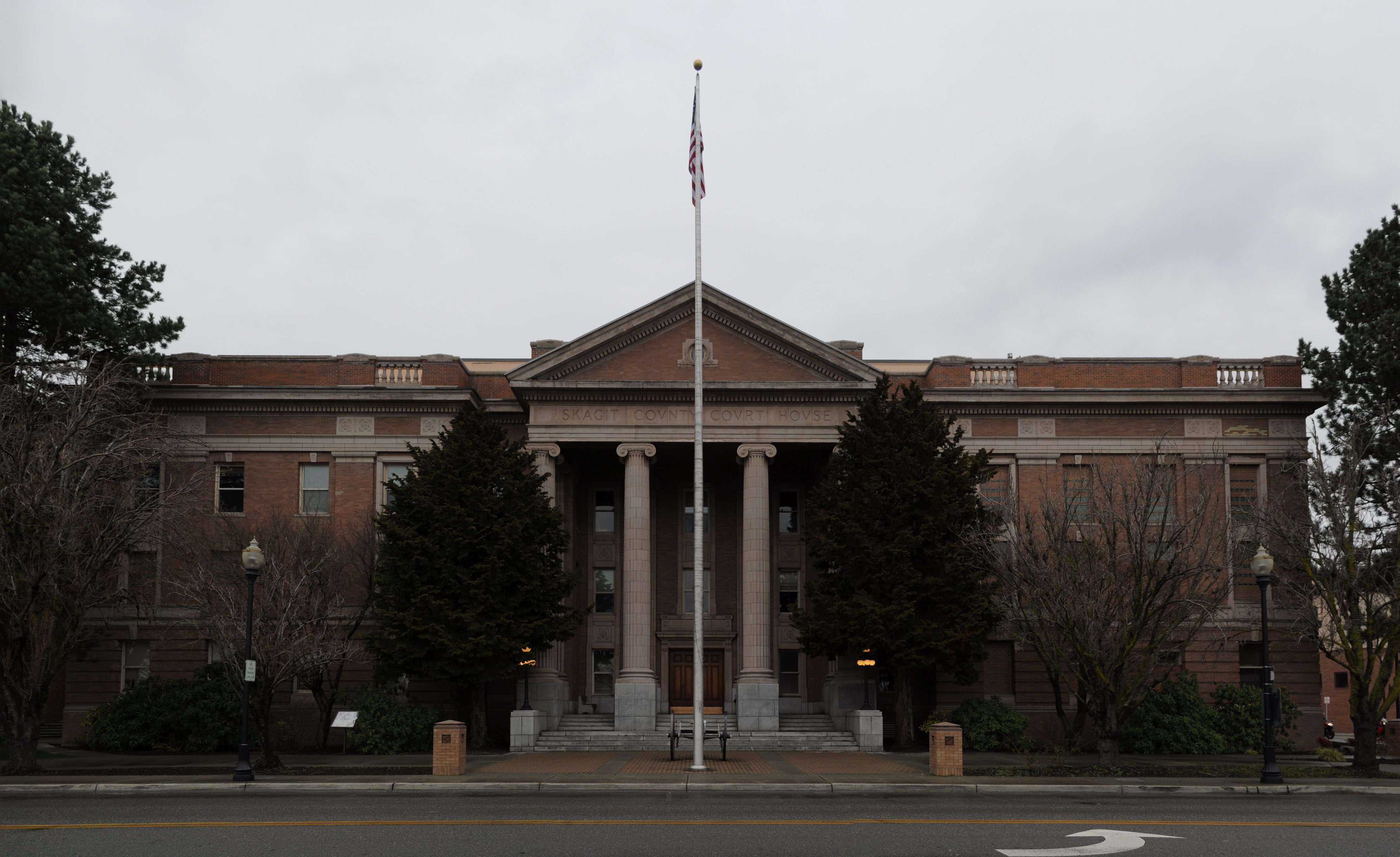 Skagit County Courthouse, Mount Vernon, Washington. This is actually a panoramic made from three photos. This image was created with Hugin